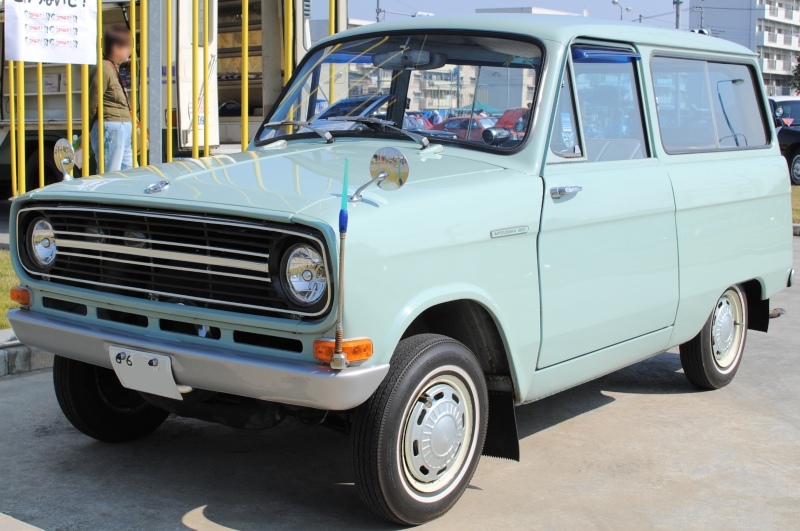 Mitsubishi 360.